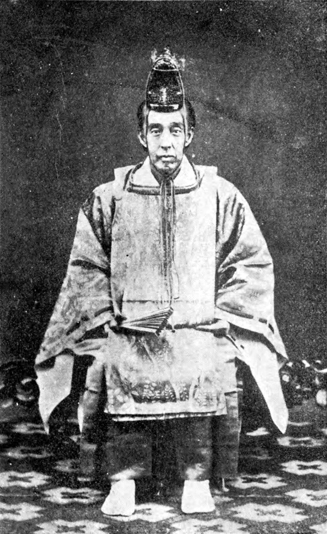 Makino Tadayuki, 11th Lord of Nagaoka